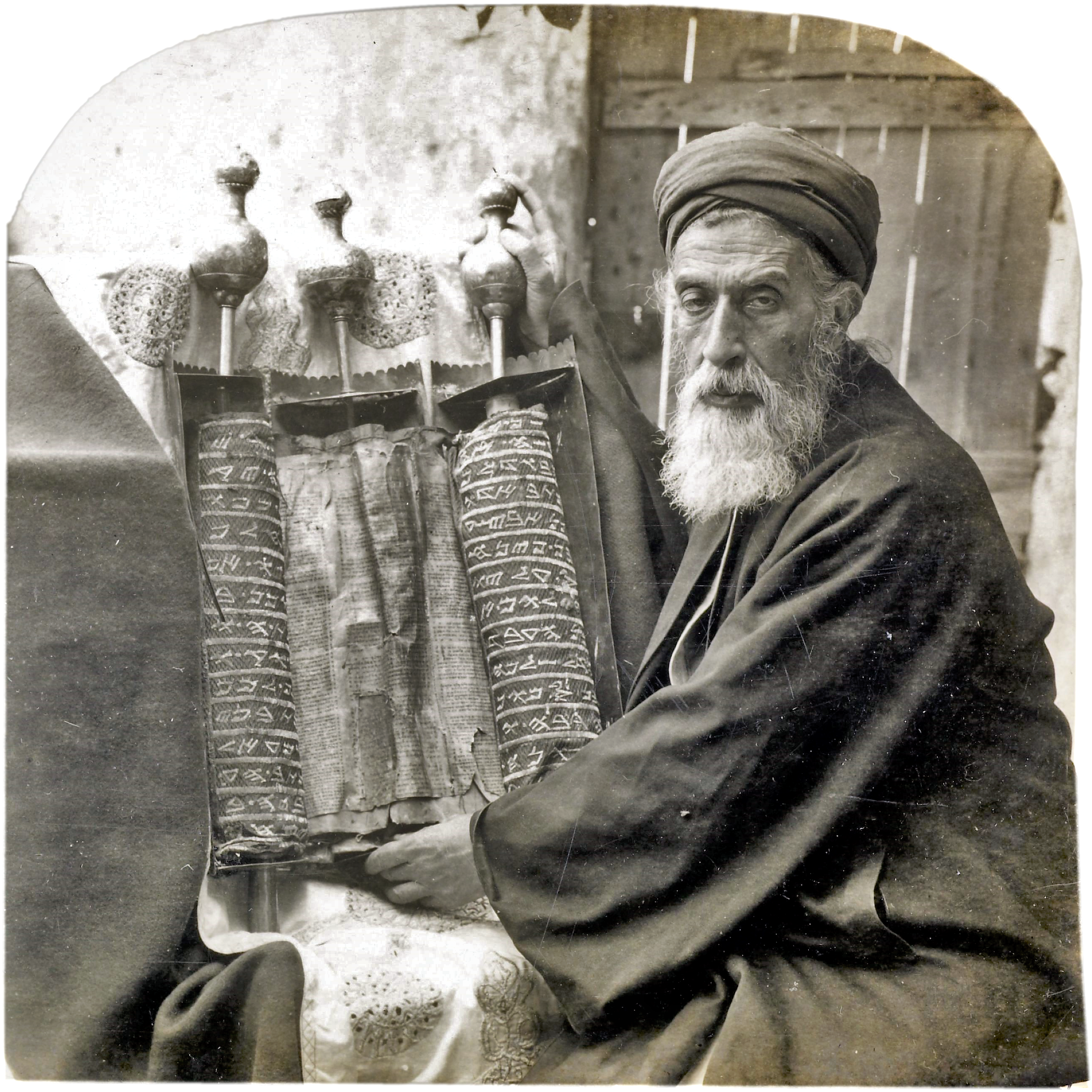 Yaakov ben Aharon, Samaritan High Priest (1896-1916) and Old Pentateuch, Nablus, West Bank. Part of a stereograph from Views of Palestine (1905). The text accompanying this image states "We are looking into the eyes of the chief representative of a religious sect, one of the oldest and certainly smallest in the world...They claim that they are the lineal descendants of the Israelites of old, from a remnant that was left when the tribes were carried into Syrian captivity...There is no doubt but that they are the representatives of the Samaritans of the time of Christ, for whom the Jews had such a deadly hatred. Here is kept with jealous care this ancient copy of the Pentateuch which is before us - one of the very oldest copies in existence. We could not have seen it on any account except in the presence of this high priest."